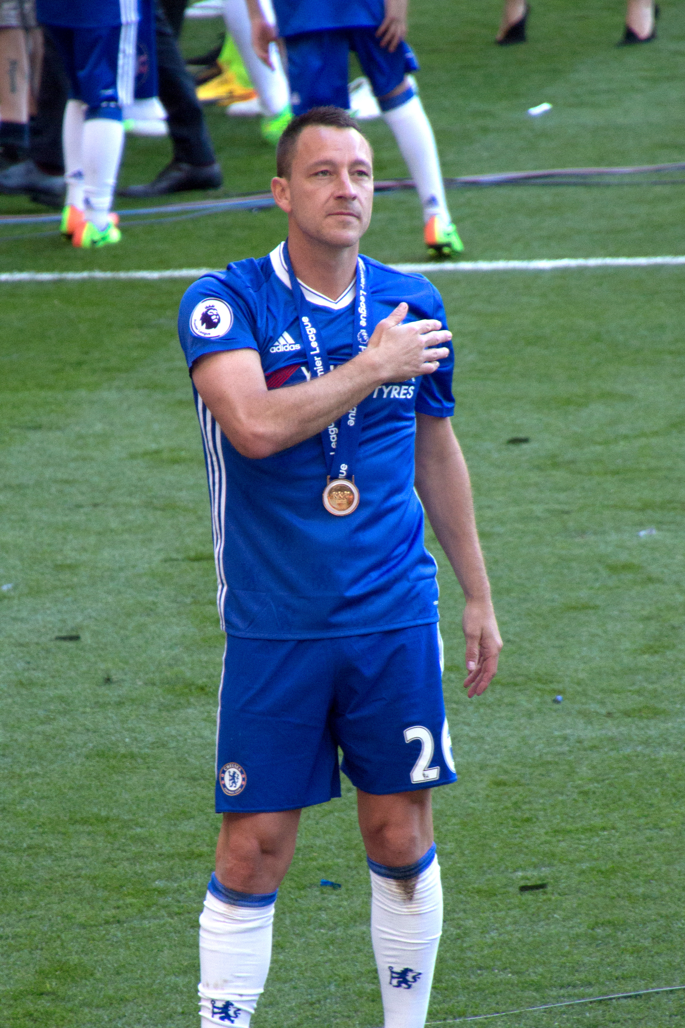 21.5.17 Post Match Celebrations